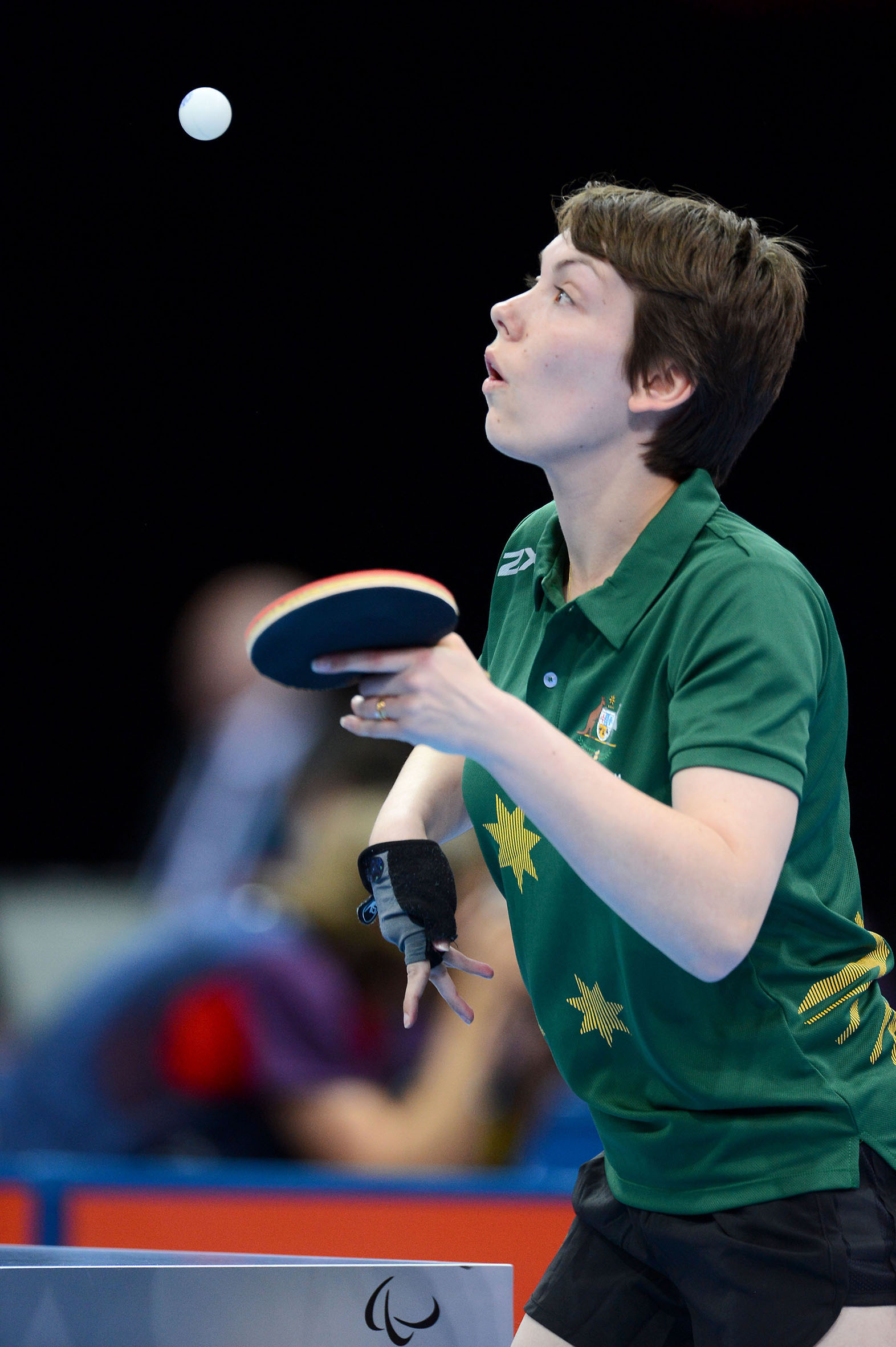 Photograph of Australian Paralympic team member Rebecca McDonnell at the 2012 Summer Paralympic Games in London